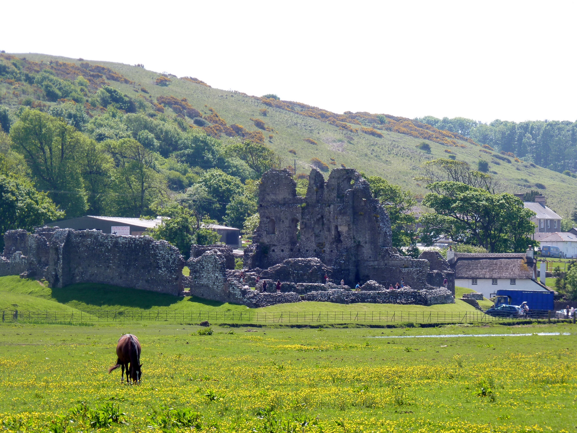 Ogmore castle, seen across the flood plain from the footbridge at Merthyr Mawr